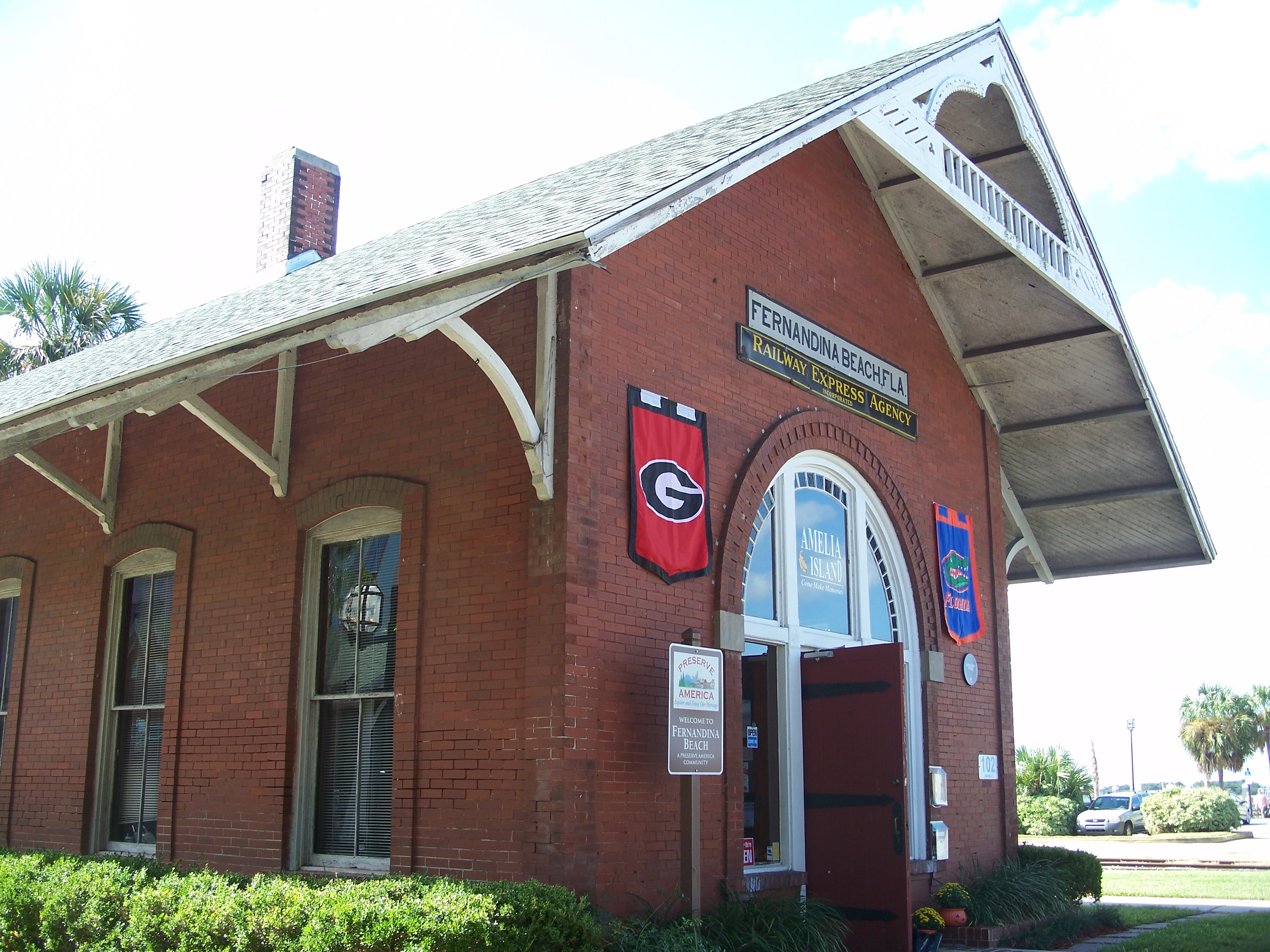 Fernandina Beach, Florida: Old Fernandina Depot, now home to the Amelia Island Visitor Center